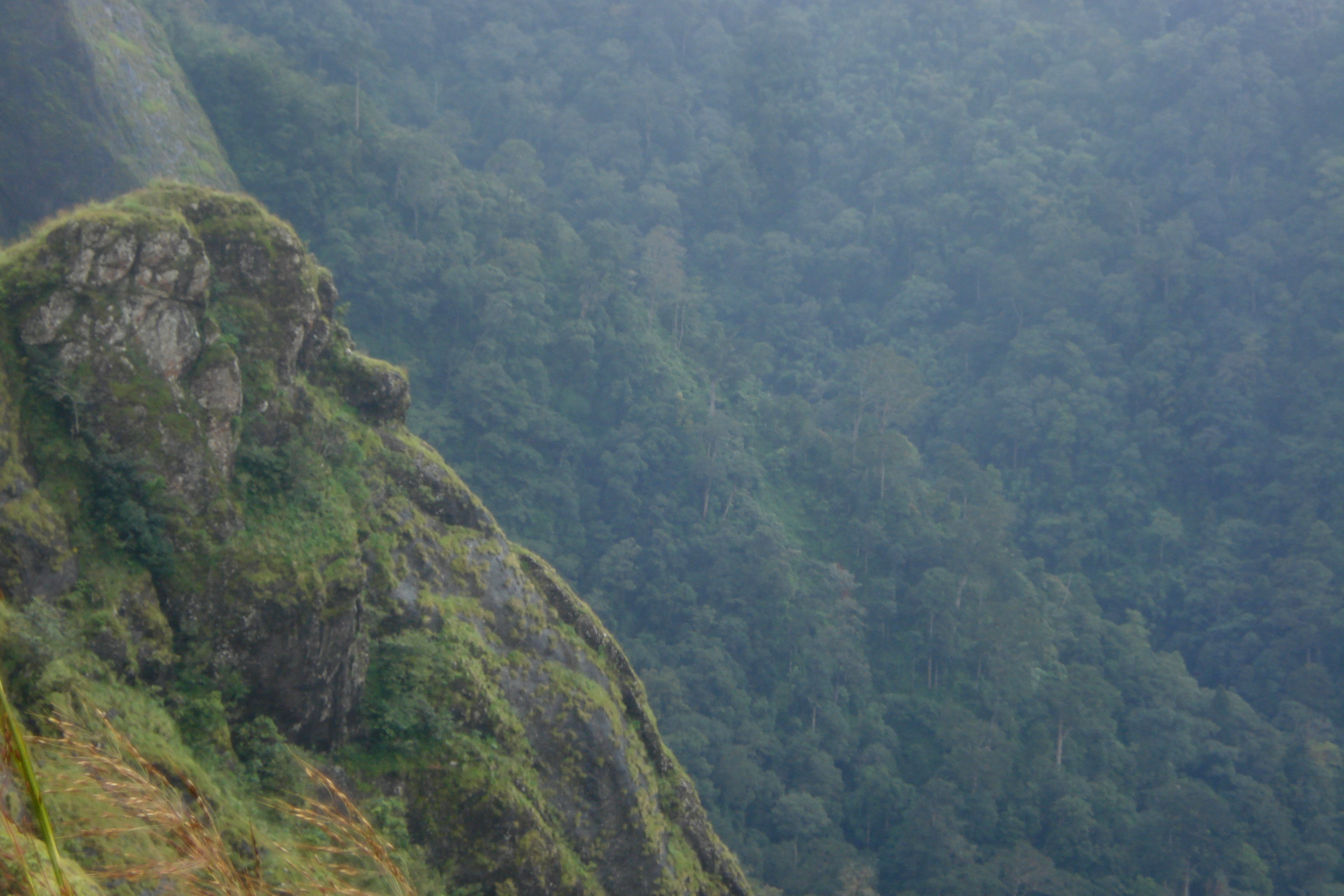 Rabindra Nath Tagore's 150th birth anniversary is being celebrated in 2011. "Tagore Rock" at Parunthumpara, near Peermade is seen in the picture. Parunthumpara is tourist spot ,about 7 Kilometres away from Peermade, in Idukki District.